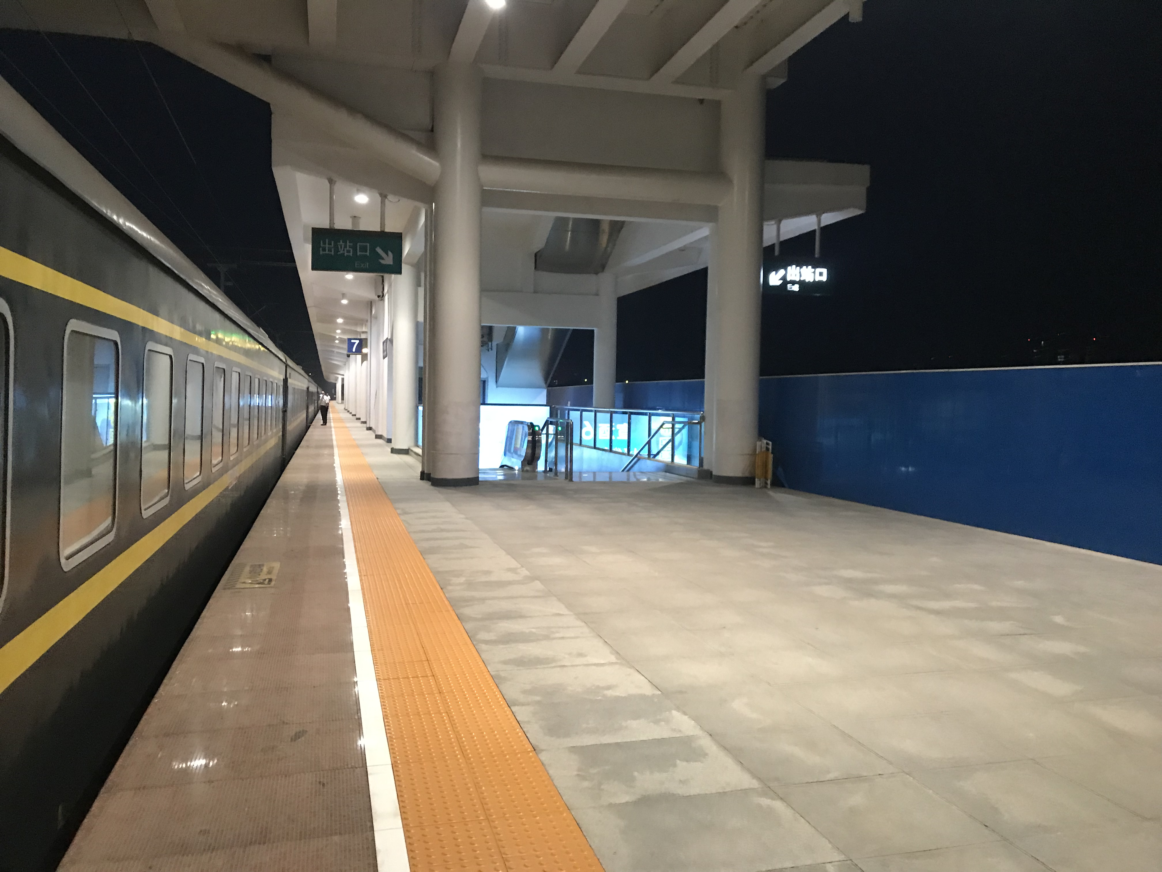 201906 Platform 1 of Xuancheng Station